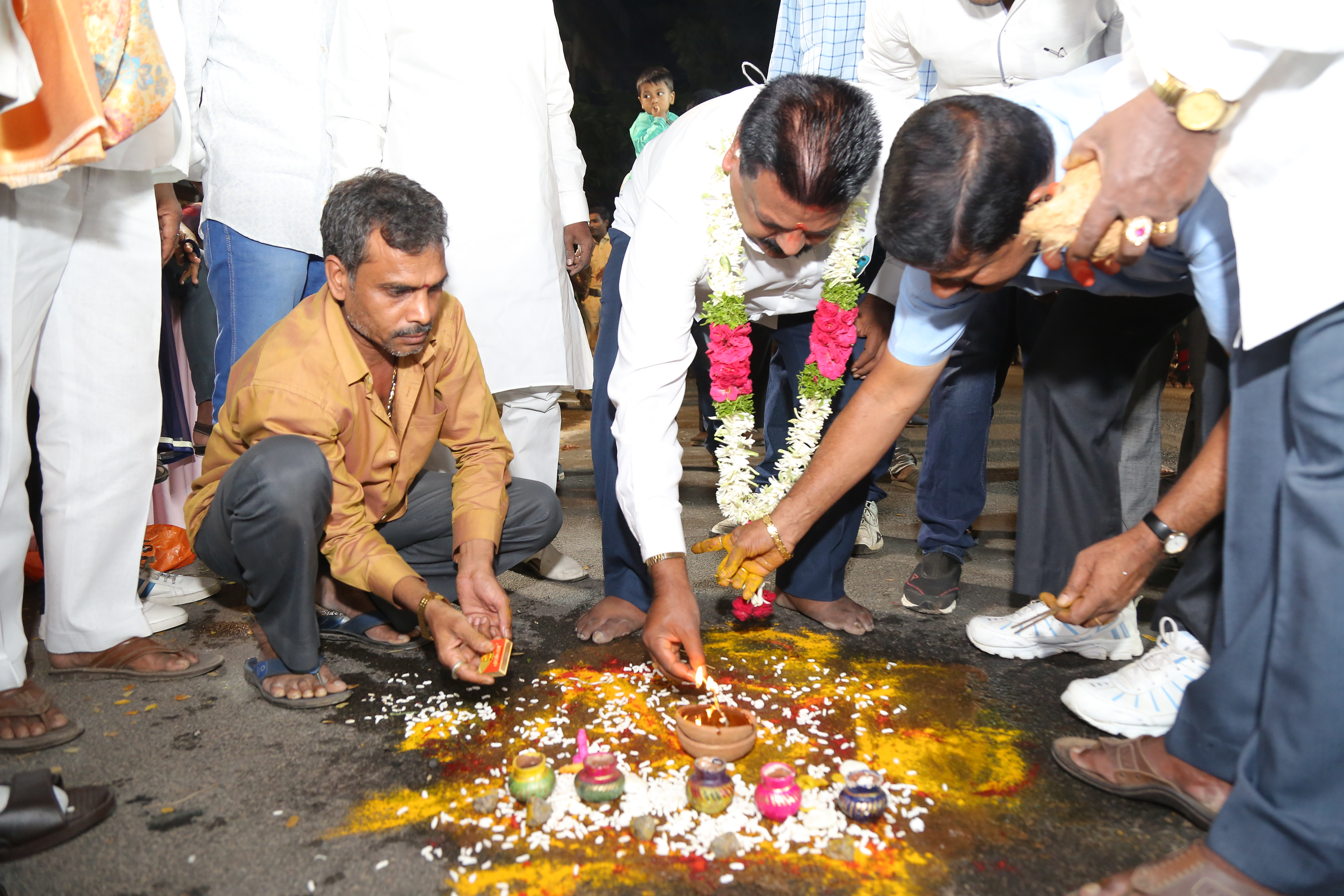 Go Puja at Sadar